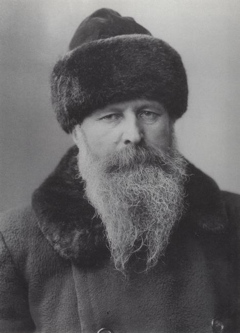 A photograph of Vasili Vereshchagin.